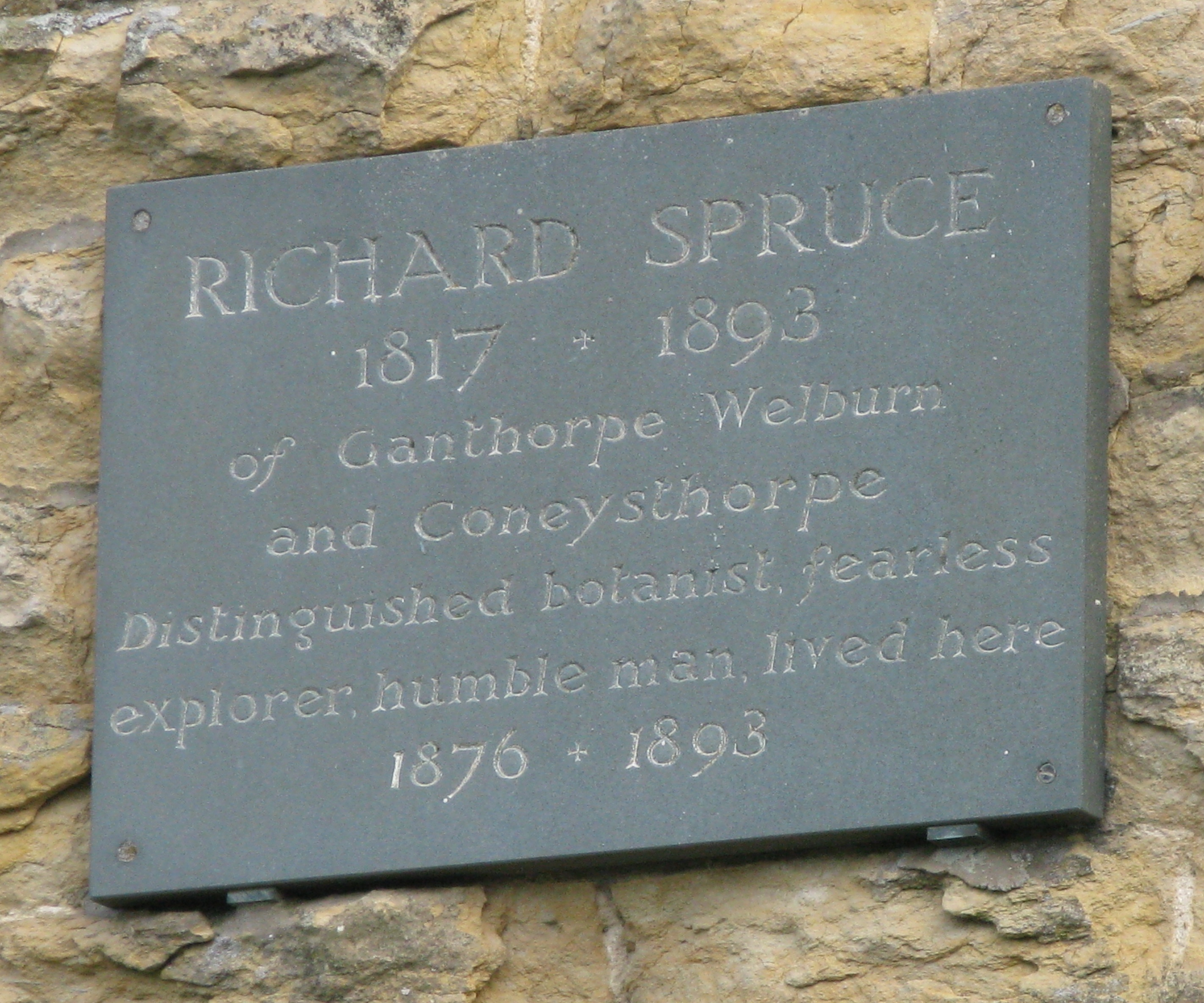 Plaque on the wall of house in Coneyshorpe (N. Yorkshire, UK), where Richard Spruce the botanist spent the last years of his life. It reads: Richard Spruce 1817 + 1893 of Ganthorpe Welburn and Coneysthorpe Distinguished botanist, fealess explorer, humble man, lived here 1876 + 1893